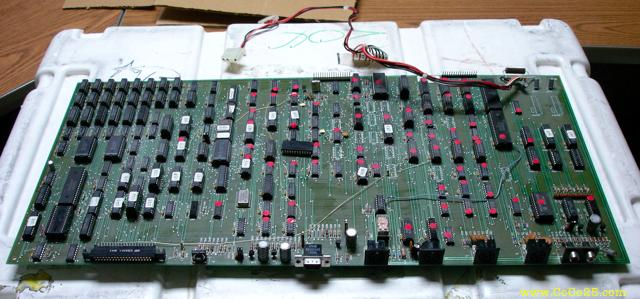 A TRS-80 Color Computer 3 prototype.